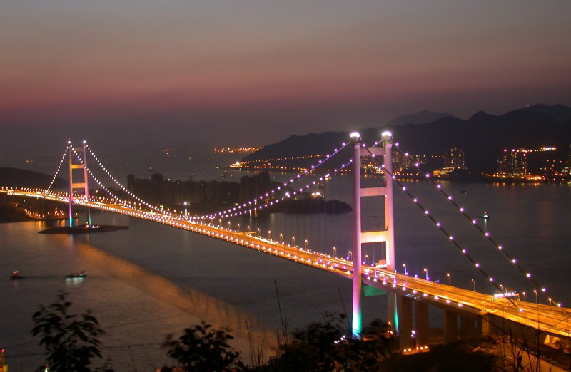 Tsing Ma Bridge with the beautiful colours by night. Bân-lâm-gú: Tshing-má Tuā-kiô ê iā-kíng. 青馬大橋的夜景。